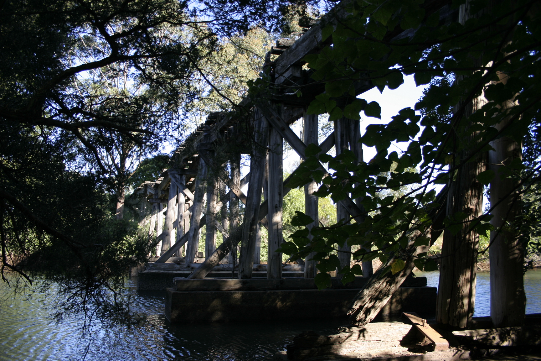 Bombaderry railway bridge near Nowra